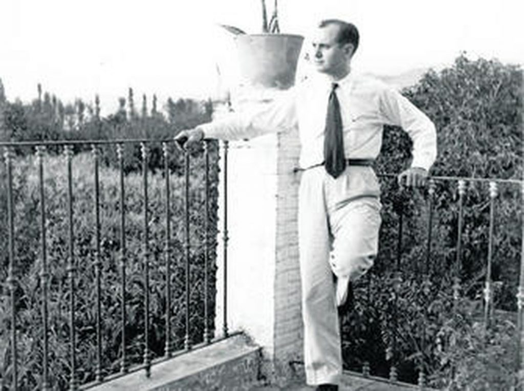 Agustín Penon in Huerta de San Vicente (Granada) circa 1955-56